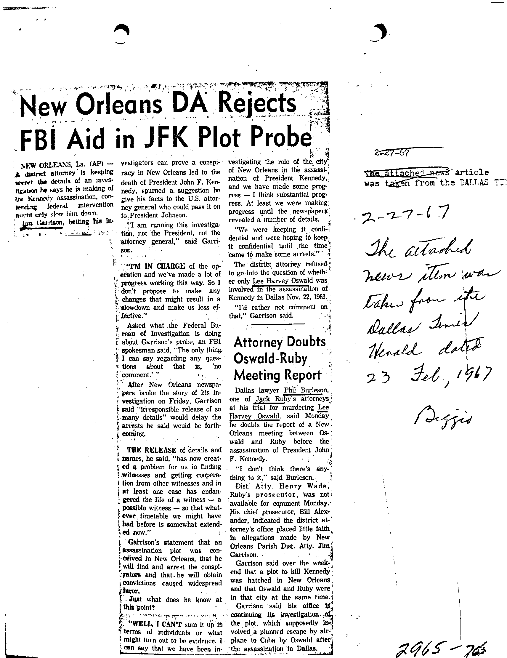 Criminal Intelligence Report, by C. T. Burnley. Report to Captain W. F. Dyson with attached newspaper clippings concerning Jim Garrison's investigation of the assassination, (Photocopy), 02/27/67.